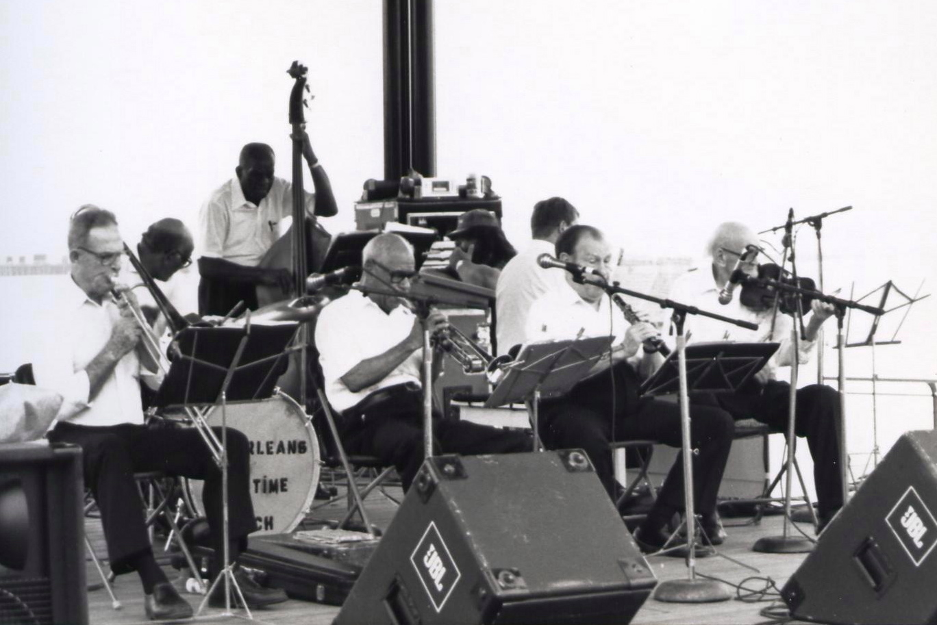 New Orleans: The New Orleans Ragtime Orchestra playing in Waldenberg Park. Musicians visible include Paul Crawford, trombone; Lionel Ferbos, trumpet; William Russell, violin.